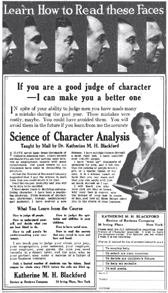 Magazine advertisement for "Science of Character Analysis", 1915